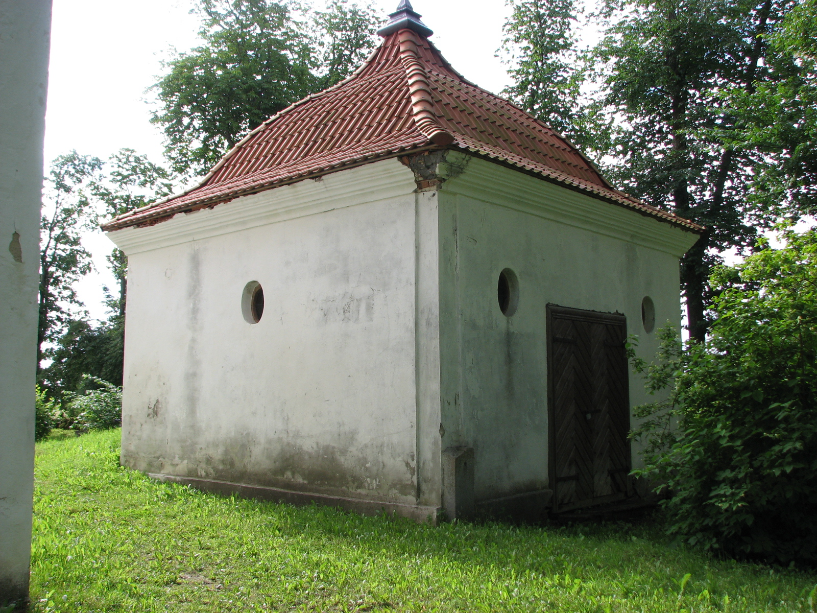 Pühalepa Churchyard, Pühalepa, Hiiumaa, Estonia. Burial chamber (chapel) of Ebba-Margaretha Stenbock.